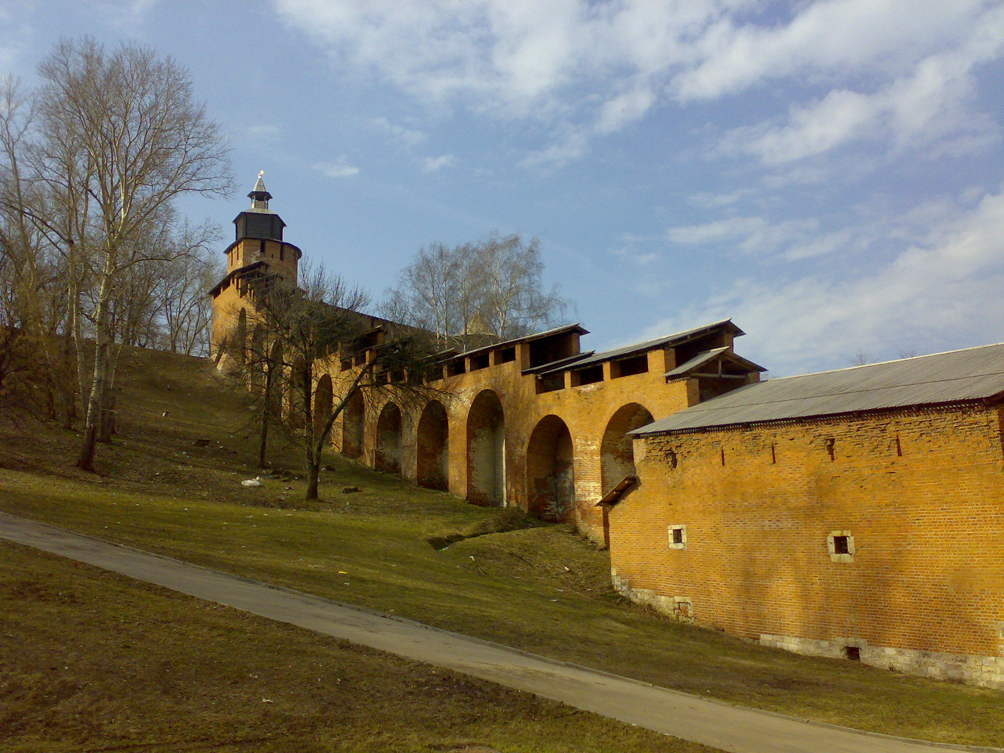 Clock (Chasovaya) Tower of Kremlin